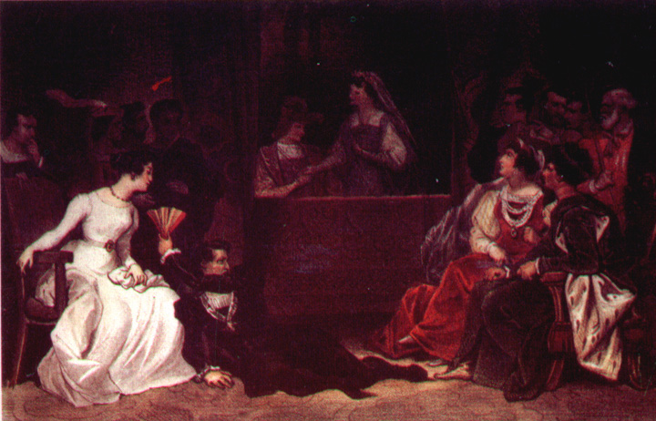 Act III of Shakespeare's Hamlet: King Claudius and the theater.